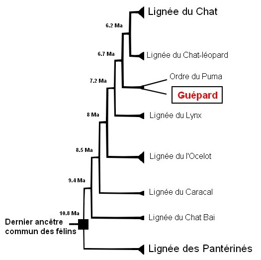 Phylogeny cheetah